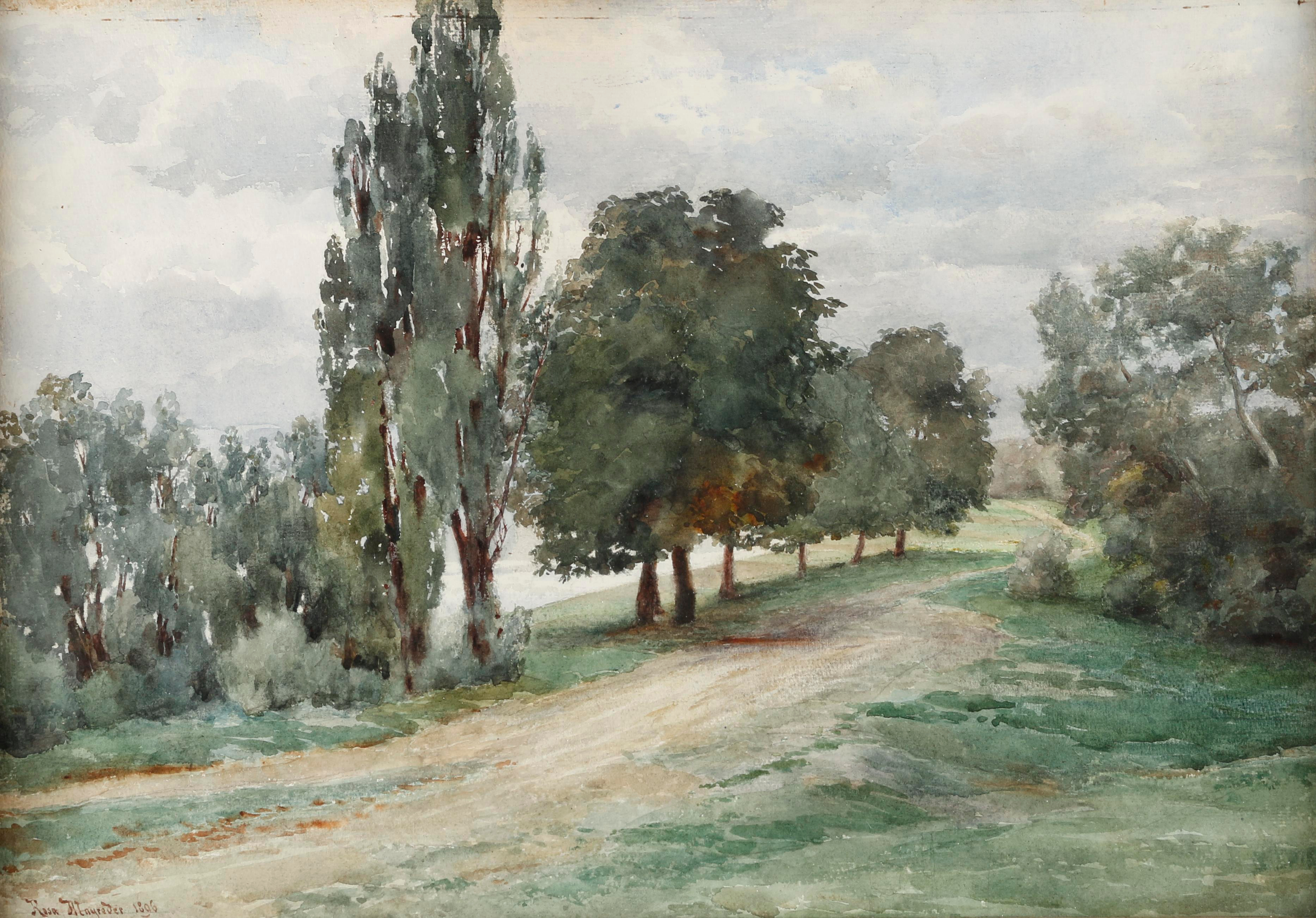 Landscape. Watercolor on paper, ca. 41 x 58 cm. Signed and dated.